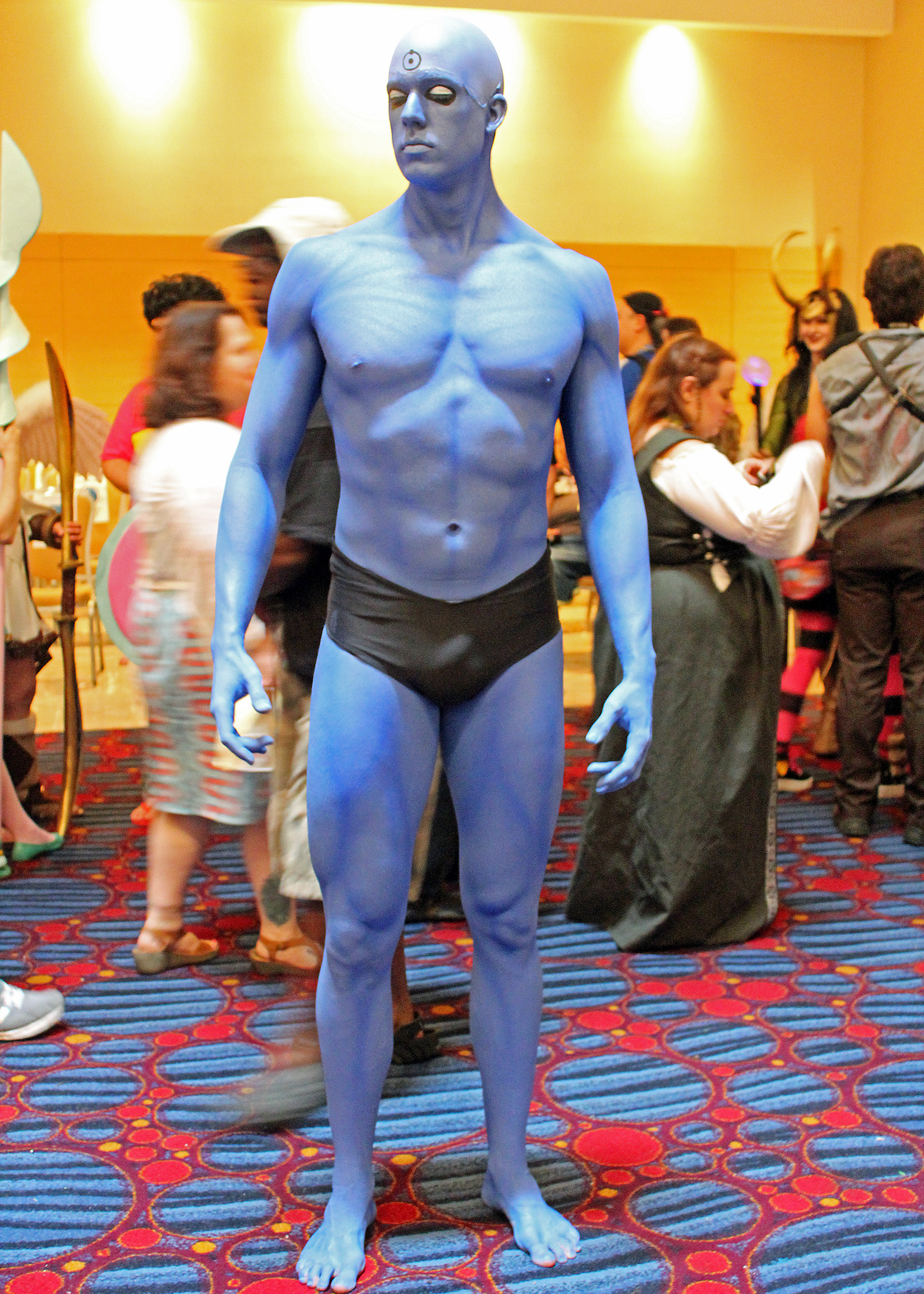 Dr. Manhattan Cosplay at Dragon Con 2014.